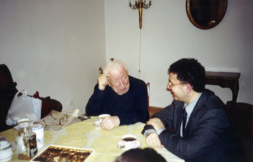 جمال حسين علي مع رسول حمزاتوف